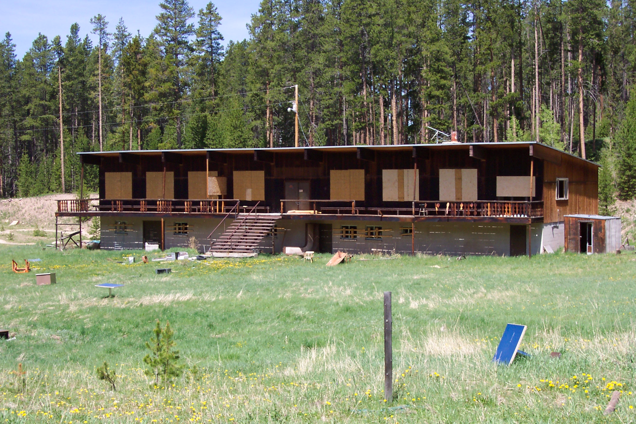 Ski Idlewild Base Lodge as of June 2, 2006